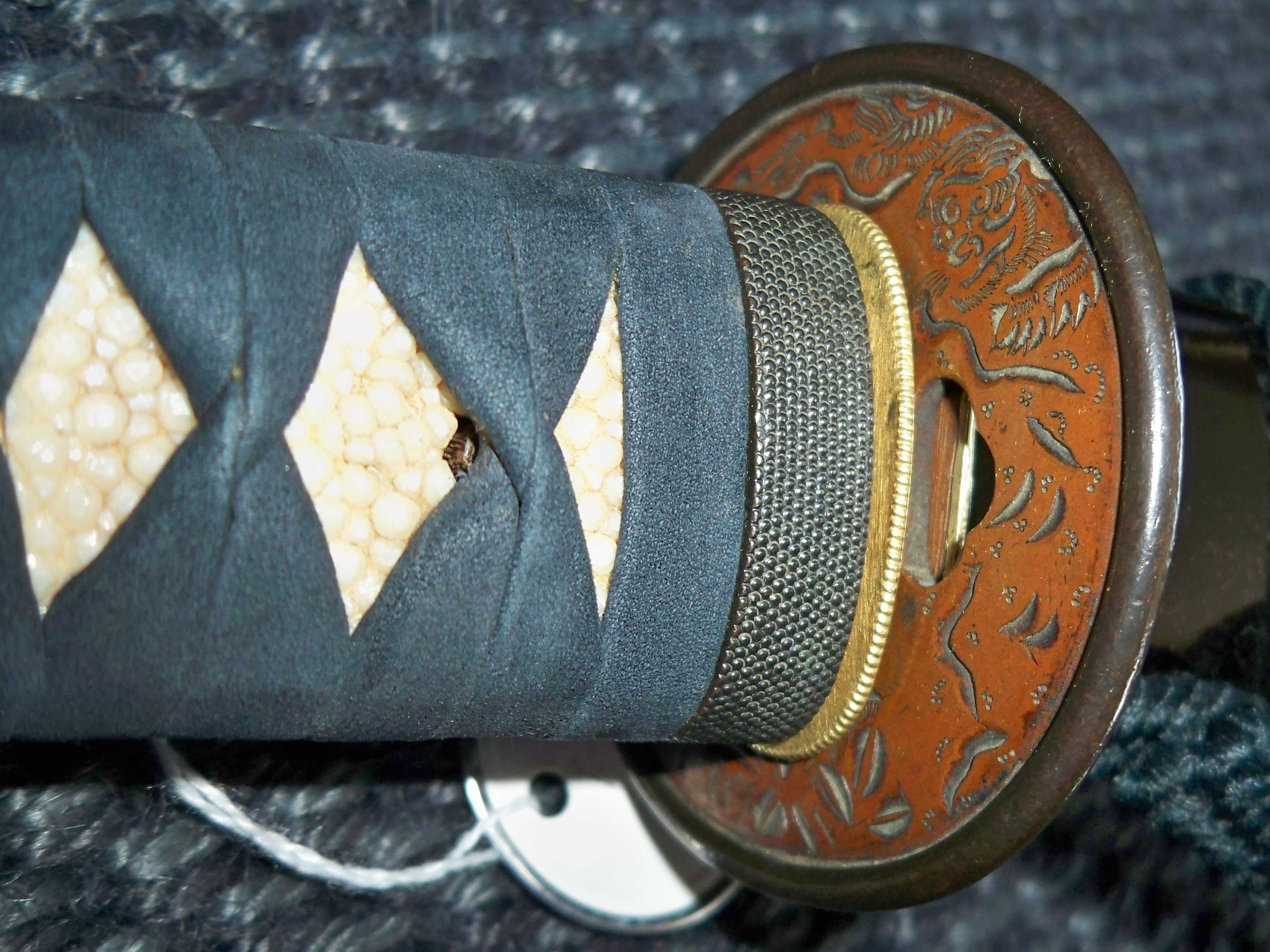 Close up picture of a Japanese katana tsuka showing the tsuba, fuchi and tsuka-ito.